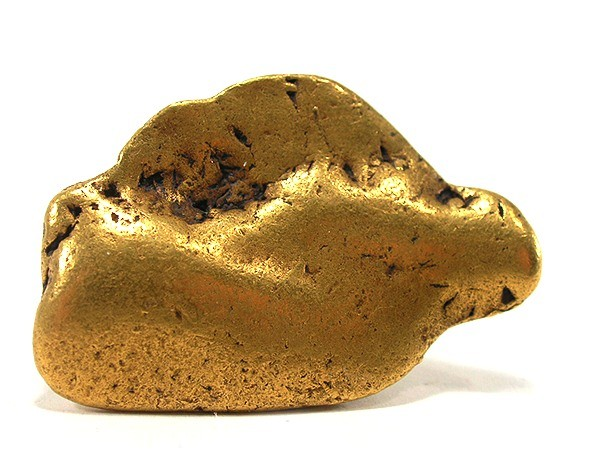 Gold Locality: Alaska, USA (Locality at ) A hefty 63.8-gram gold nugget, shaped like a pancake. Very beautiful and classic locality nugget. 4.5 x 3 x 0.6 cm